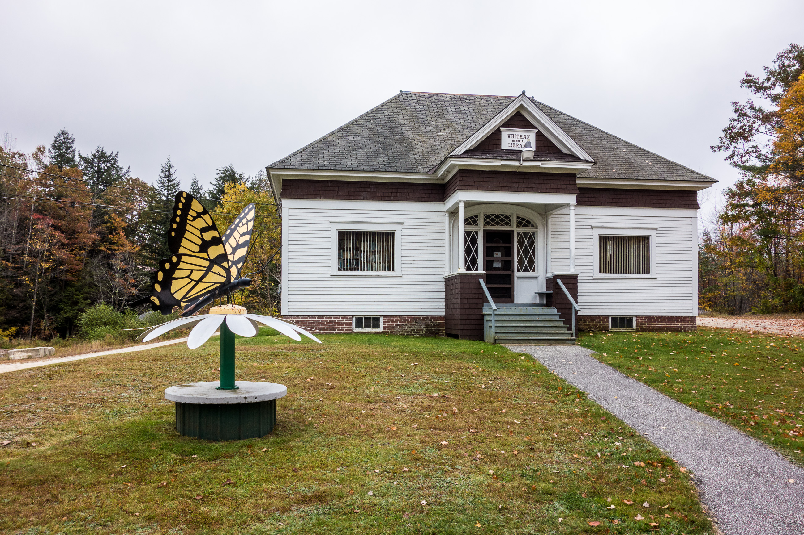 Whitman Memorial Library, National Register of Historic Places, Bryant Pond, Oxford, Maine.